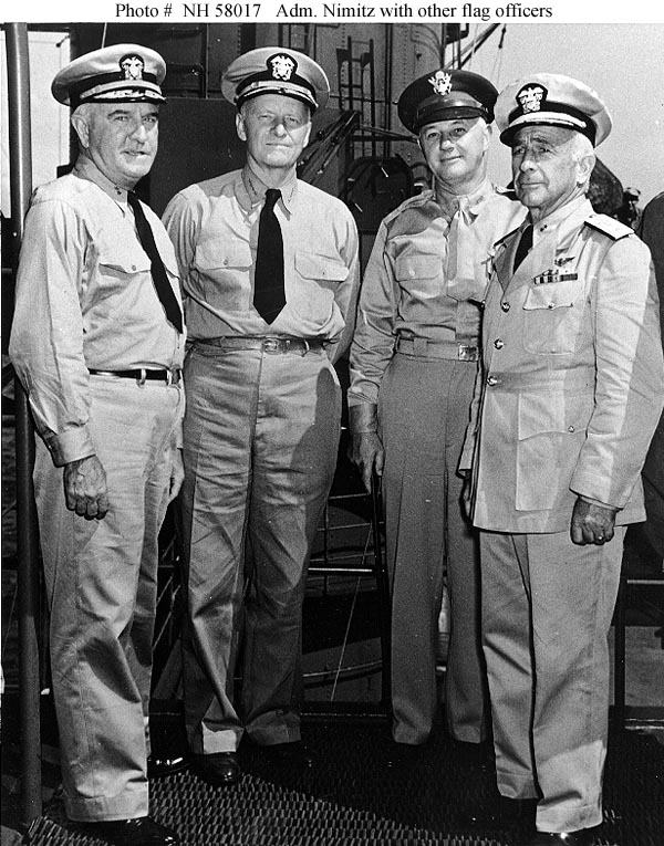 Fleet Admiral Chester W. Nimitz, USN, Commander in Chief, Pacific Fleet and Pacific Ocean Areas, (2nd from left). On board ship, probably at Pearl Harbor in mid-1942. With him are, from left: Rear Admiral David W. Bagley, Commander, Hawaiian Sea Frontier; Major General Delos C. Emmons, U.S. Army; and Rear Admiral Aubrey W. Fitch